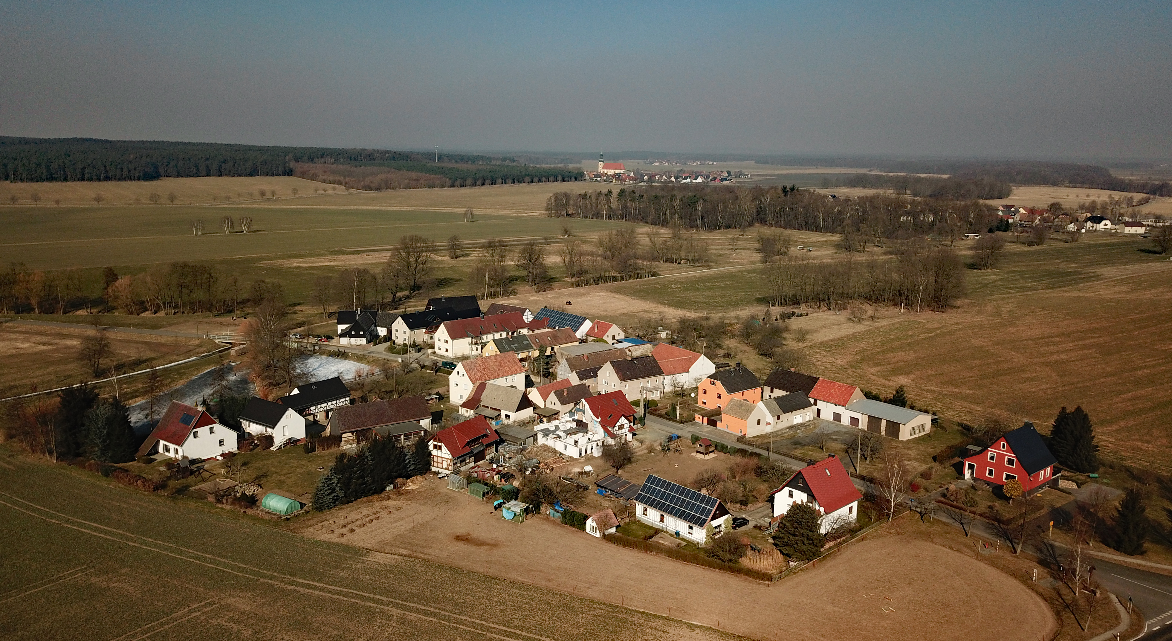 Gränze (Ralbitz-Rosenthal, Saxony, Germany) Hornjoserbsce: Powětrowy wobraz Hrańcy